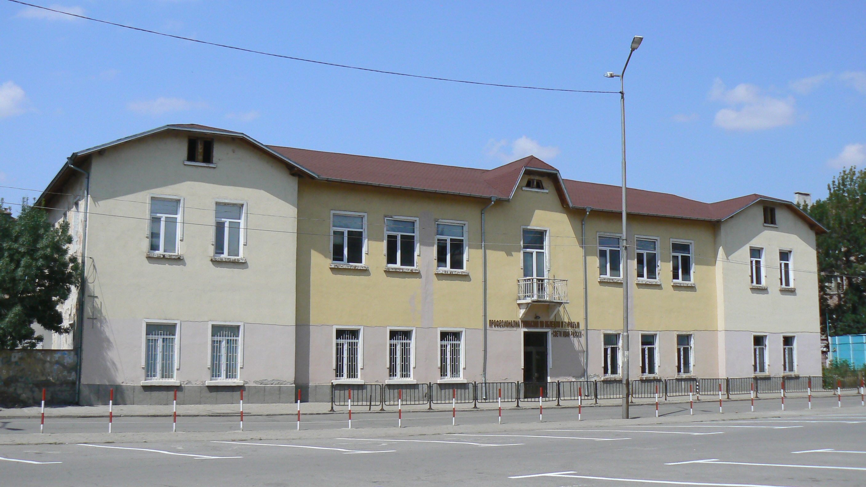 The Textile Vocational school in town Pernik, Bulgaria